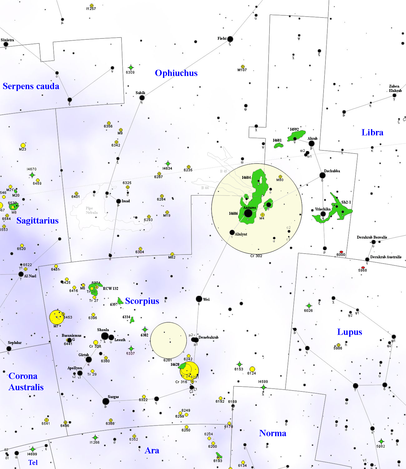 Scorpius constellation map, with DSOs